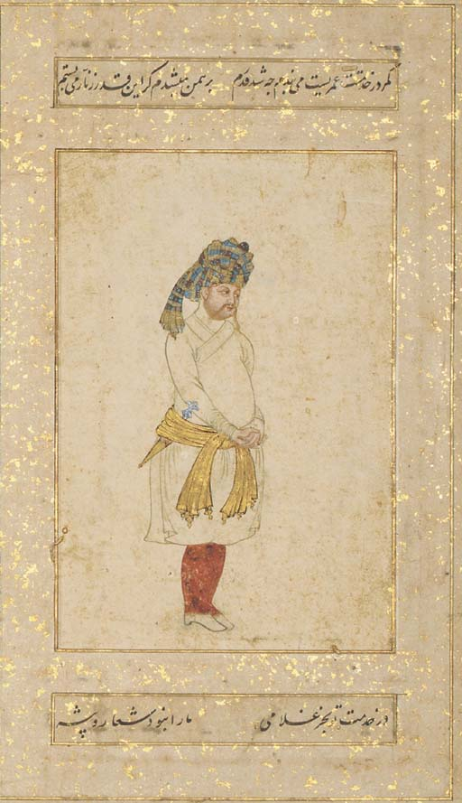 A disgruntled courtier compares himself to a Brahmin (downloaded Sept. 2003) "PORTRAIT OF A PERSIAN COURTIER. Probably Mughal India, 1620-30. Pen and ink heightened with gouache and gold on paper, the courtier wearing an elaborate turban standing with his hands folded in front of him, inscribed above and below in black, mounted on an album page. Album leaf 11¼ x 7in. (28.5 x 17.7cm.). Lot Notes: The inscription reads: I have been tying the belt of service throughout my life, what is my value? I would have been a Brahman, had I tied so many zunnar [=sacred threads] In your service, there is no motto or profession for me other than servitude. The inscription is clearly a complaint of an official to his superior or ruler and may relate to the subject of the painting. This is a sensitive portrait of a young Persian courtier wearing the large turban and moustache fashionable during the reign of Shah Abbas (1587-1629). He is clasping his hands before him and stands with his feet closely together."